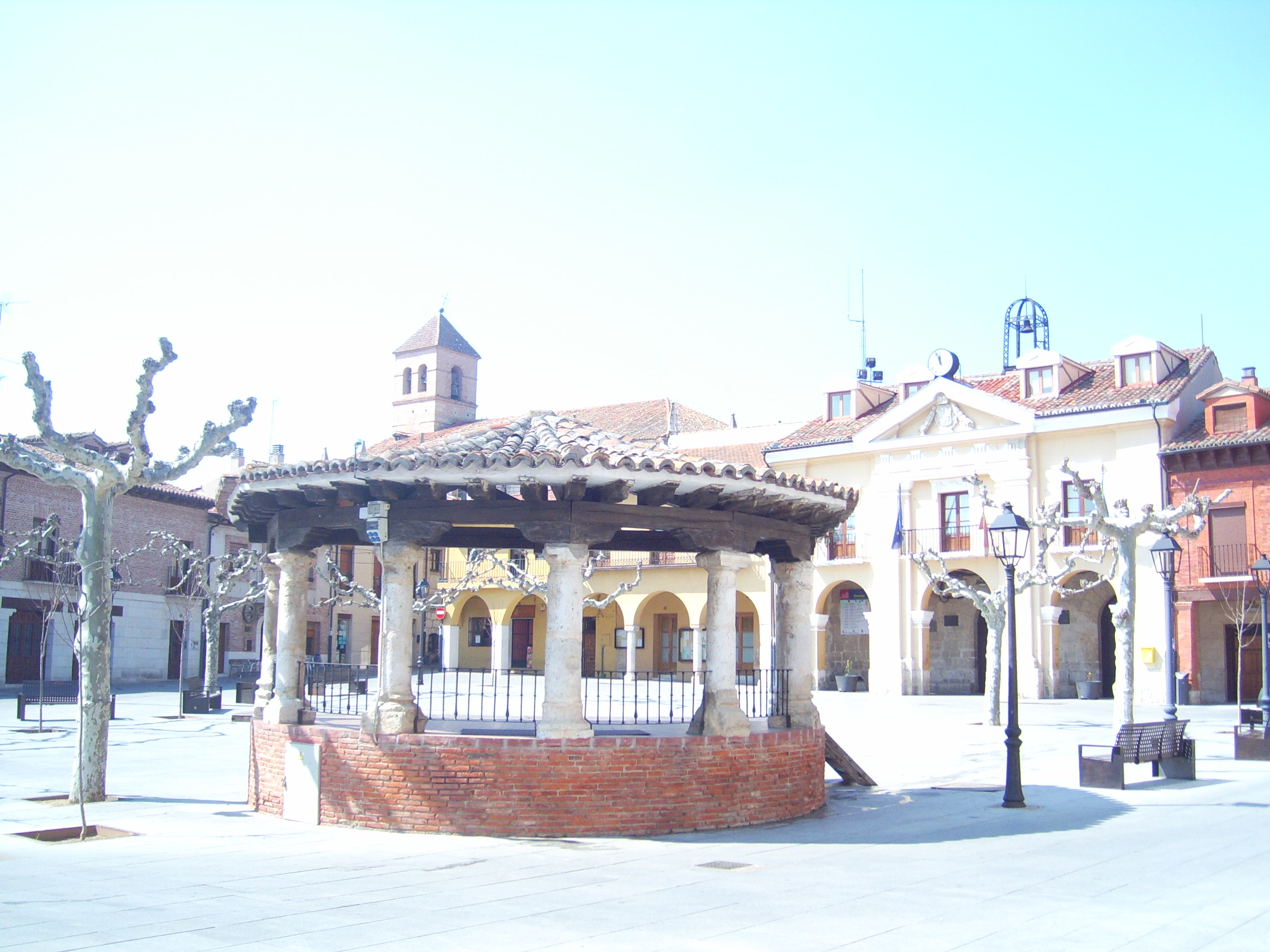 Main square of Simancas (Valladolid, Spain).